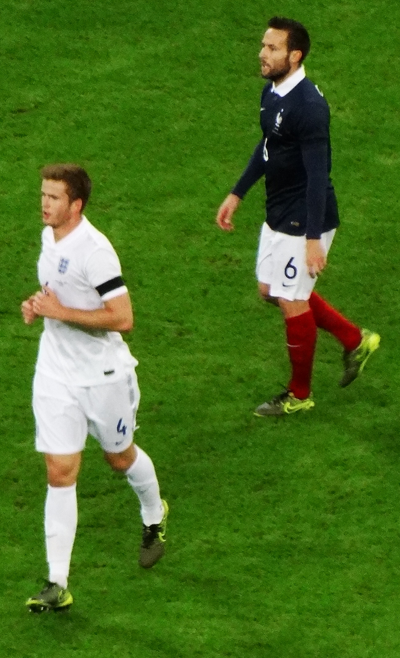 Eric Dier of England and Yohan Cabaye of France